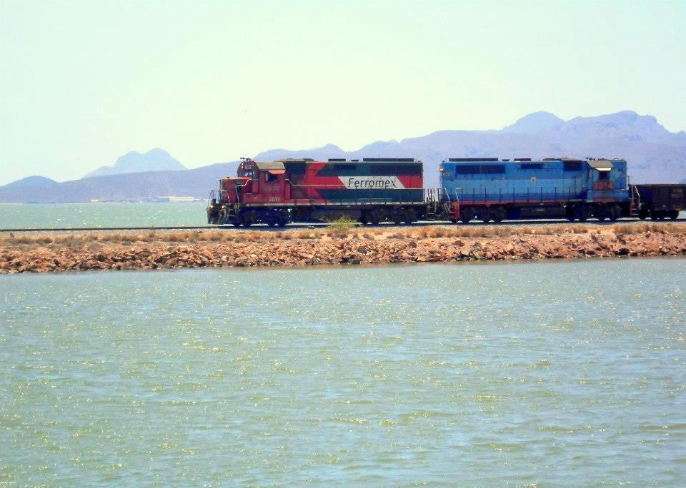 máquina de ferrocarriles de México